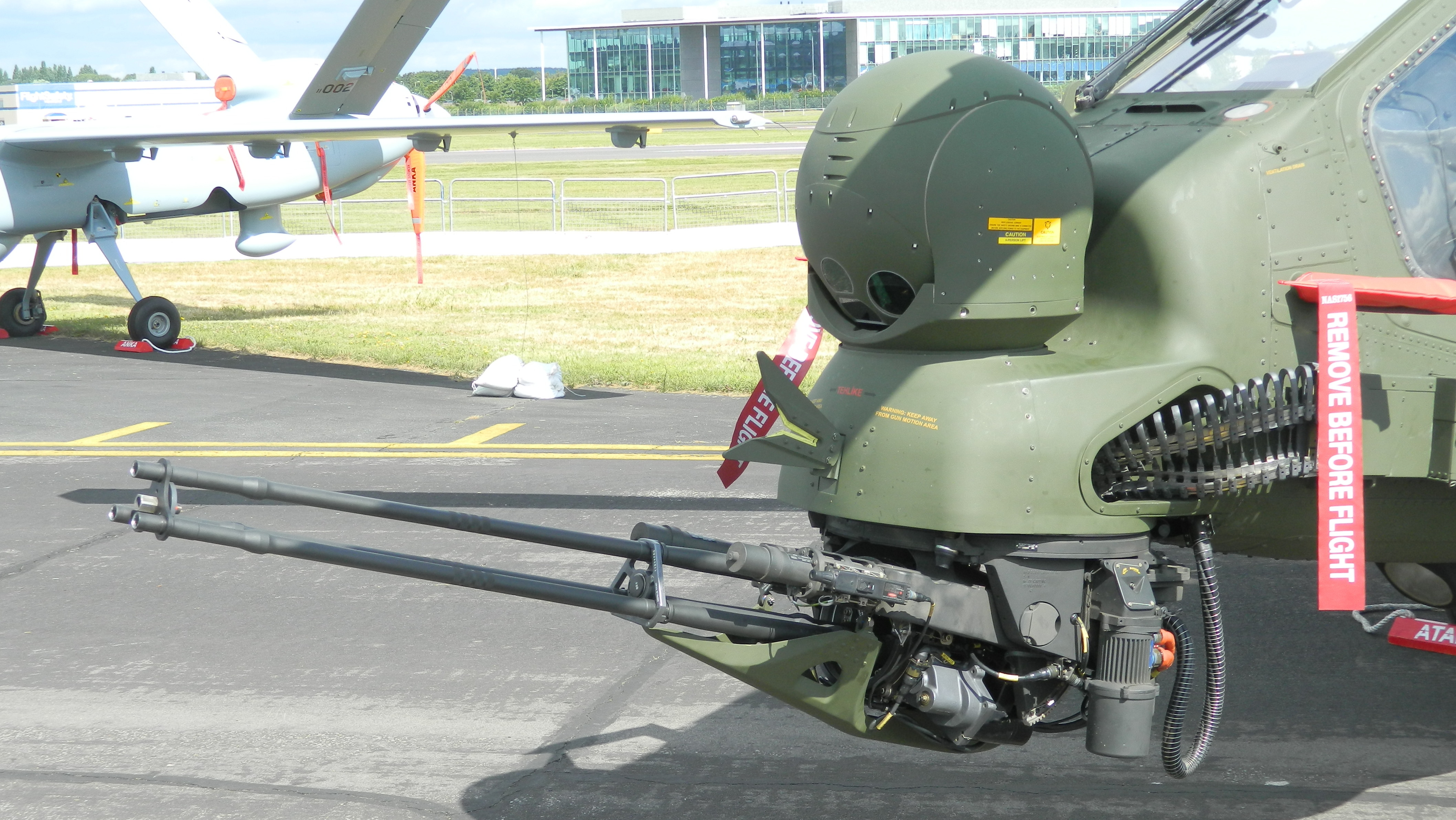 TAI T129 Attack Helicopter "1001" on display at the 2014 Farnborough Air Display